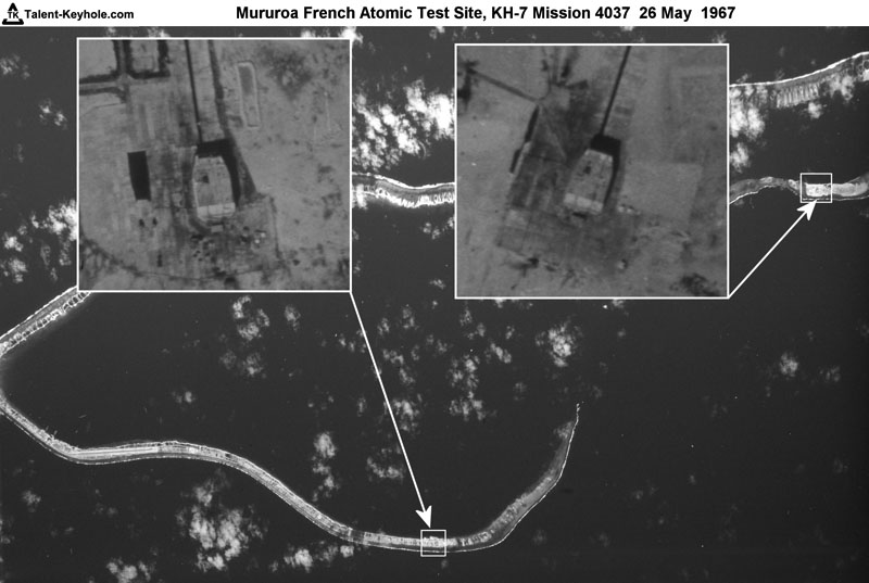 KH-7 satellite reconnaissance image of the Mururoa Atomic Test Site in French Polynesia, May 26, 1967. (Source: National Security Archive Electronic Briefing Book No. 184)